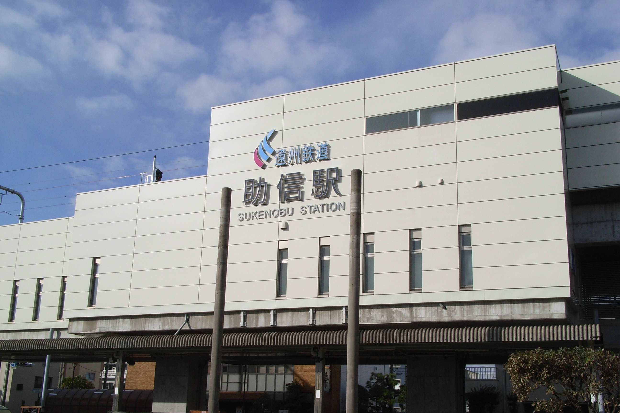 Sukenobu Station